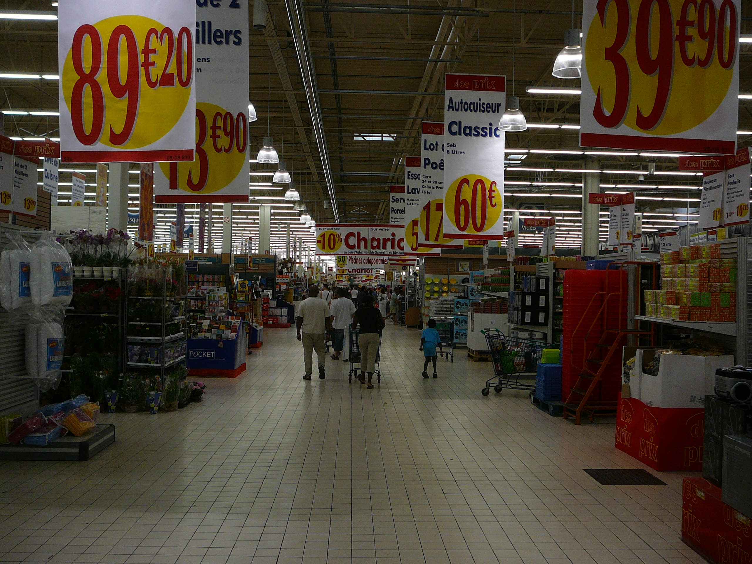 interior of store in the southern Paris suburb of Massy